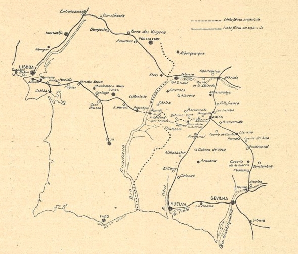 Map of the cancelled project for a railway between Reguengos de Monsaraz, in Portugal, and Zafra, in Spain. This image was published on the Gazeta dos Caminhos de Ferro magazine No. 1155, of the 1st February 1936, and scanned by the Hemeroteca Municipal de Lisboa.